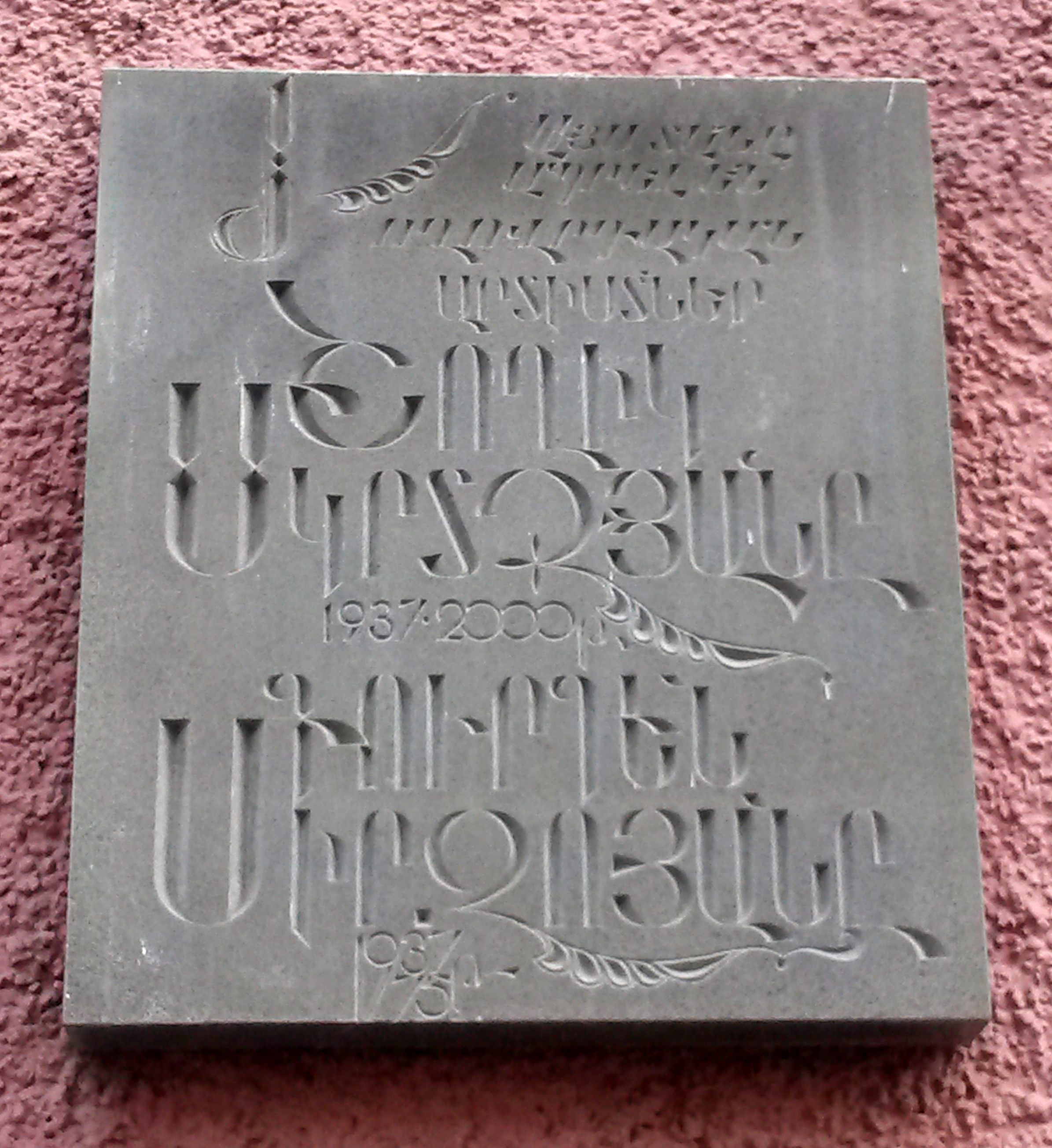 Shoghik Mkrtchyan's and Gurgen Mirzoyan's plaque in Yerevan